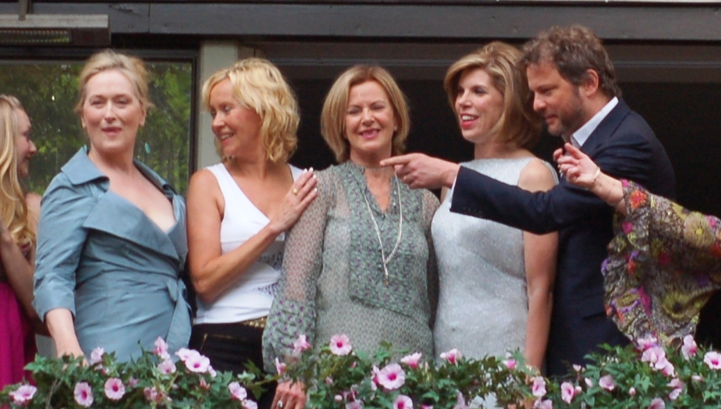 Premiere of Mamma Mia! (2008). Meryl Streep ("Donna"), Agnetha Fältskog (ABBA), Anni-Frid Lngstad (ABBA), Christine Baranski ("Tanya"), Colin Firth ("Harry"), Catherine Johnson (Script).